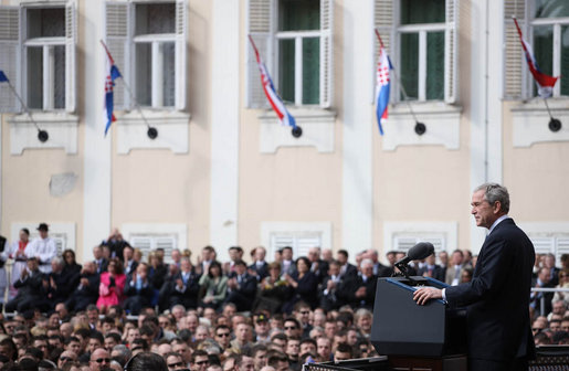 President George W. Bush addresses a crowd of thousands who flocked to St. Mark's Square in downtown Zagreb Saturday, April 5, 2008, to see and hear President Bush on his visit to Croatia